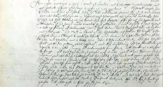 Letter giving permission for Casper Van Senden to remove Africans from England